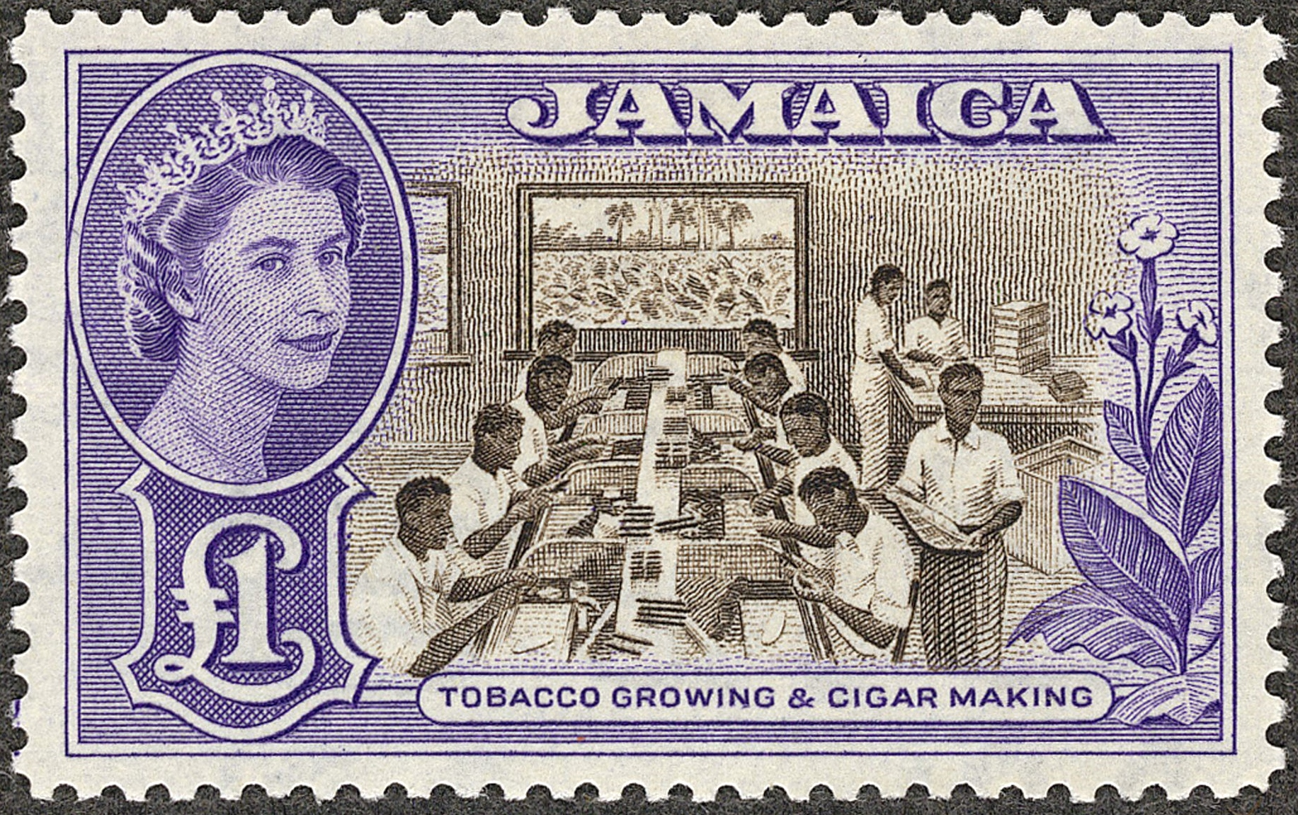 Jamaican postage stamp that was printed, but unissued for Jamaica in 1956